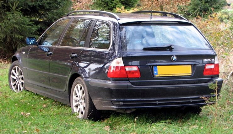 BMW 320d (E46) Touring (2004)